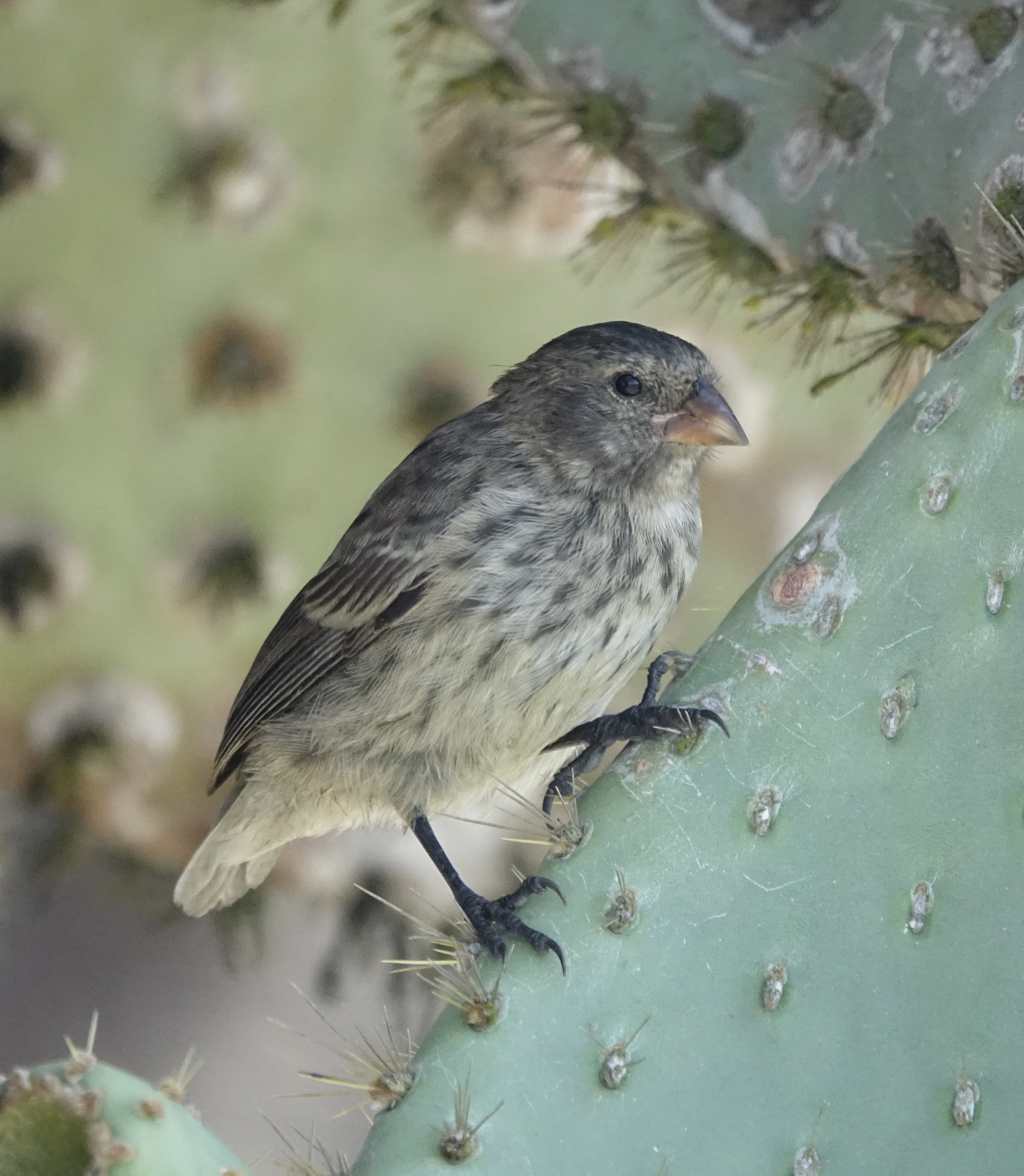 South Plaza Island